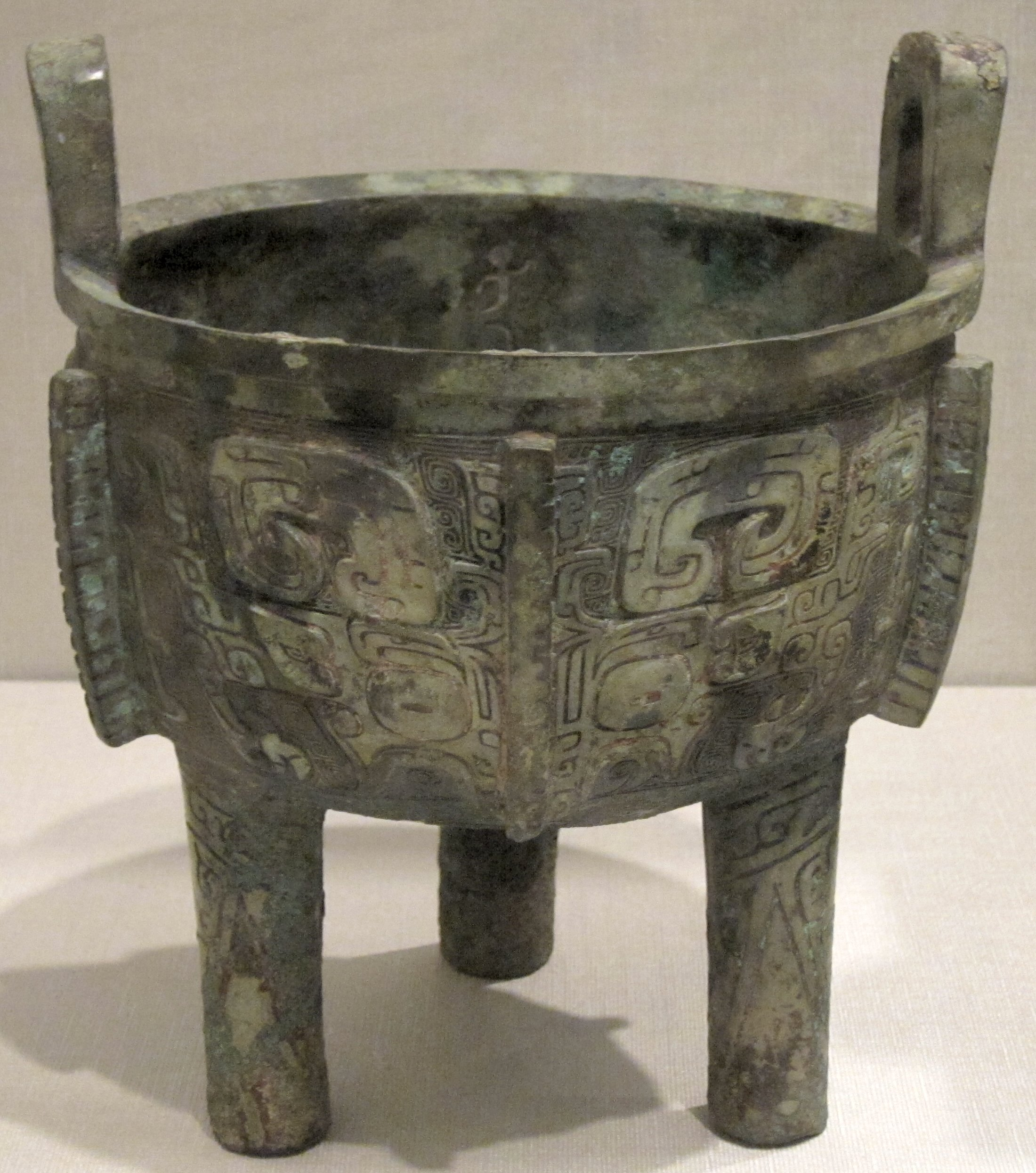 Ding (vessel), China, Shang dynasty, c. 1500-1050 BCE, Honolulu Academy of Arts